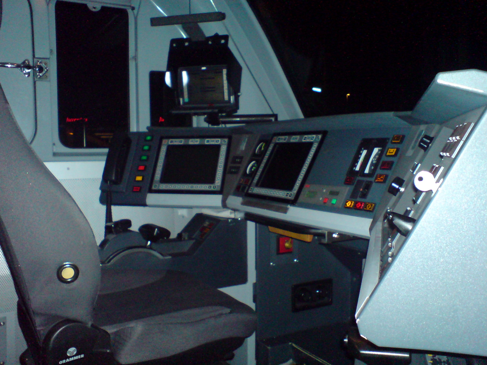 Cab of a SBB bilevel IC2000 driving trailer Bt